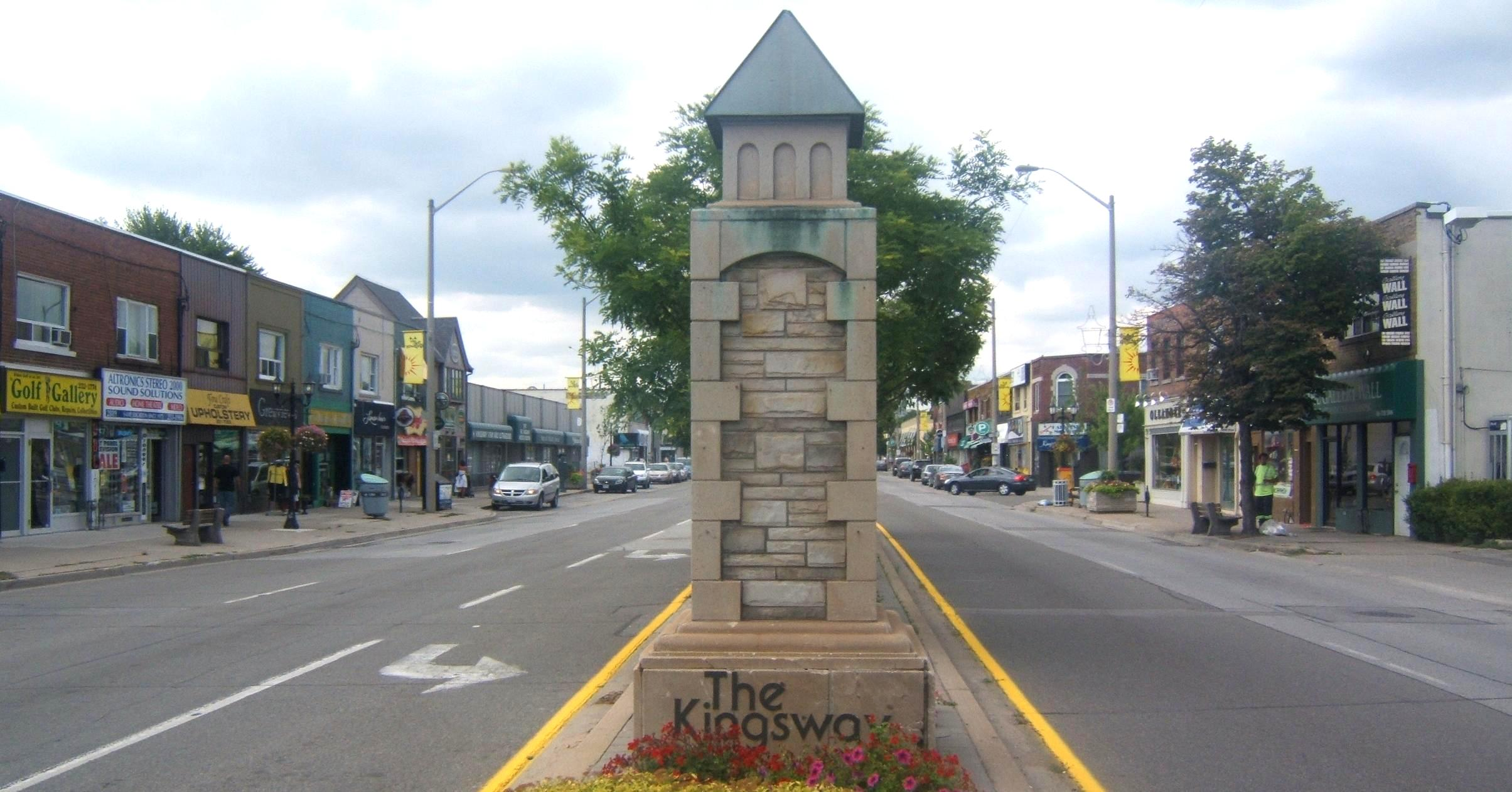 Entrance to the Kingsway on Bloor Street West at Prince Edward Drive